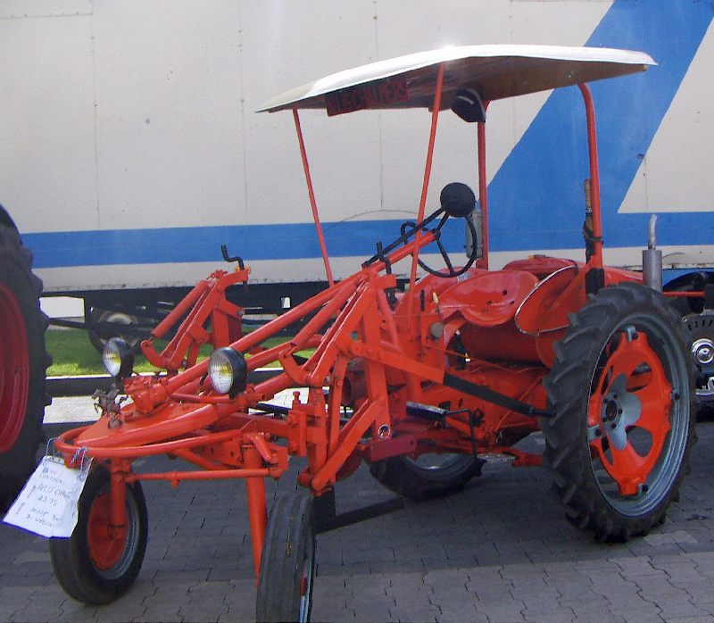 Allis-Chalmers model GRV (orchard/vineyard version of model G built in France; 23 hp, 1958) on show in Monschau, Germany